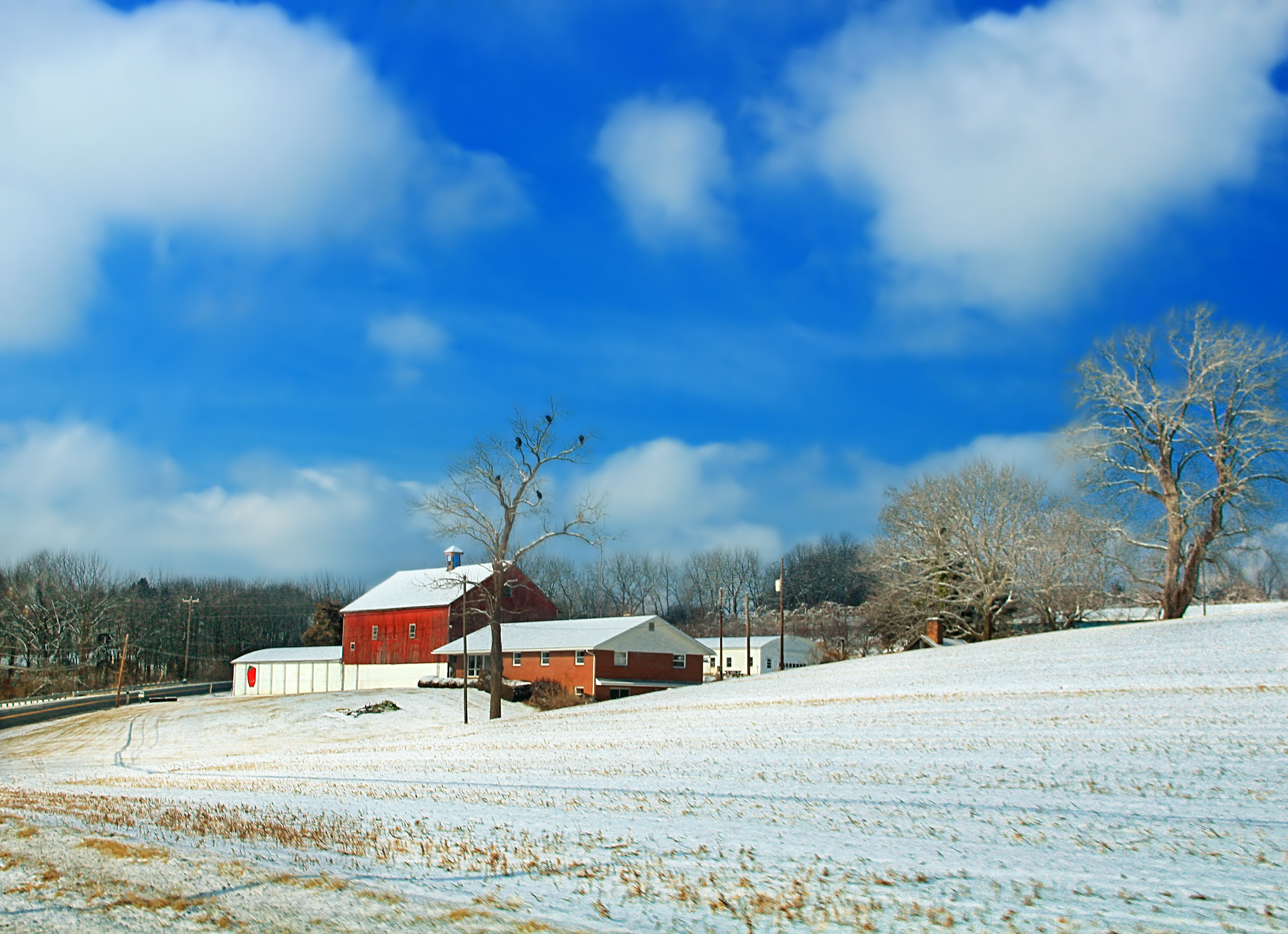 Roadside farm, East Allen Township, Northampton County.